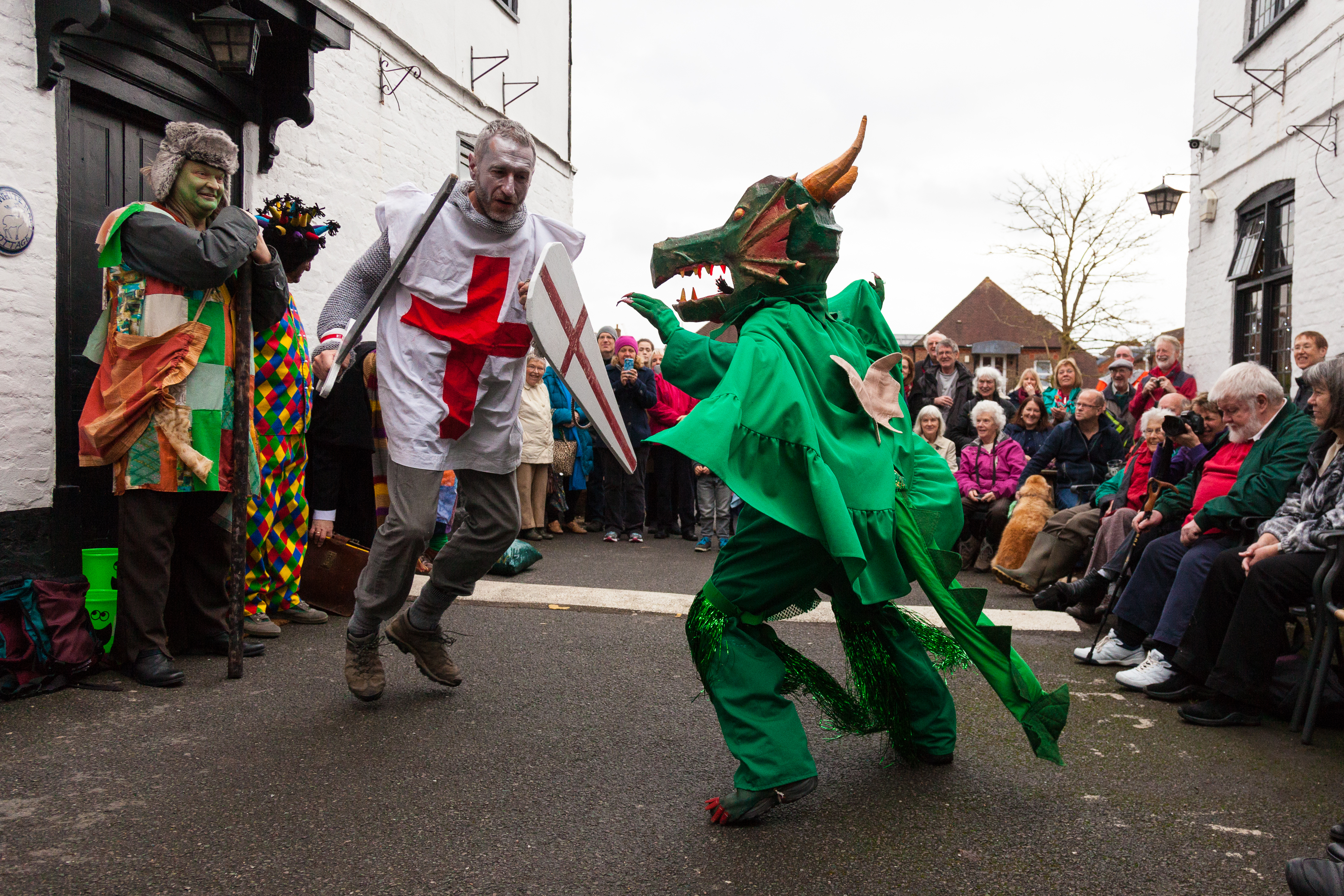 St George and the Dragon fight. A production of St George and the Dragon by the St Albans Mummers